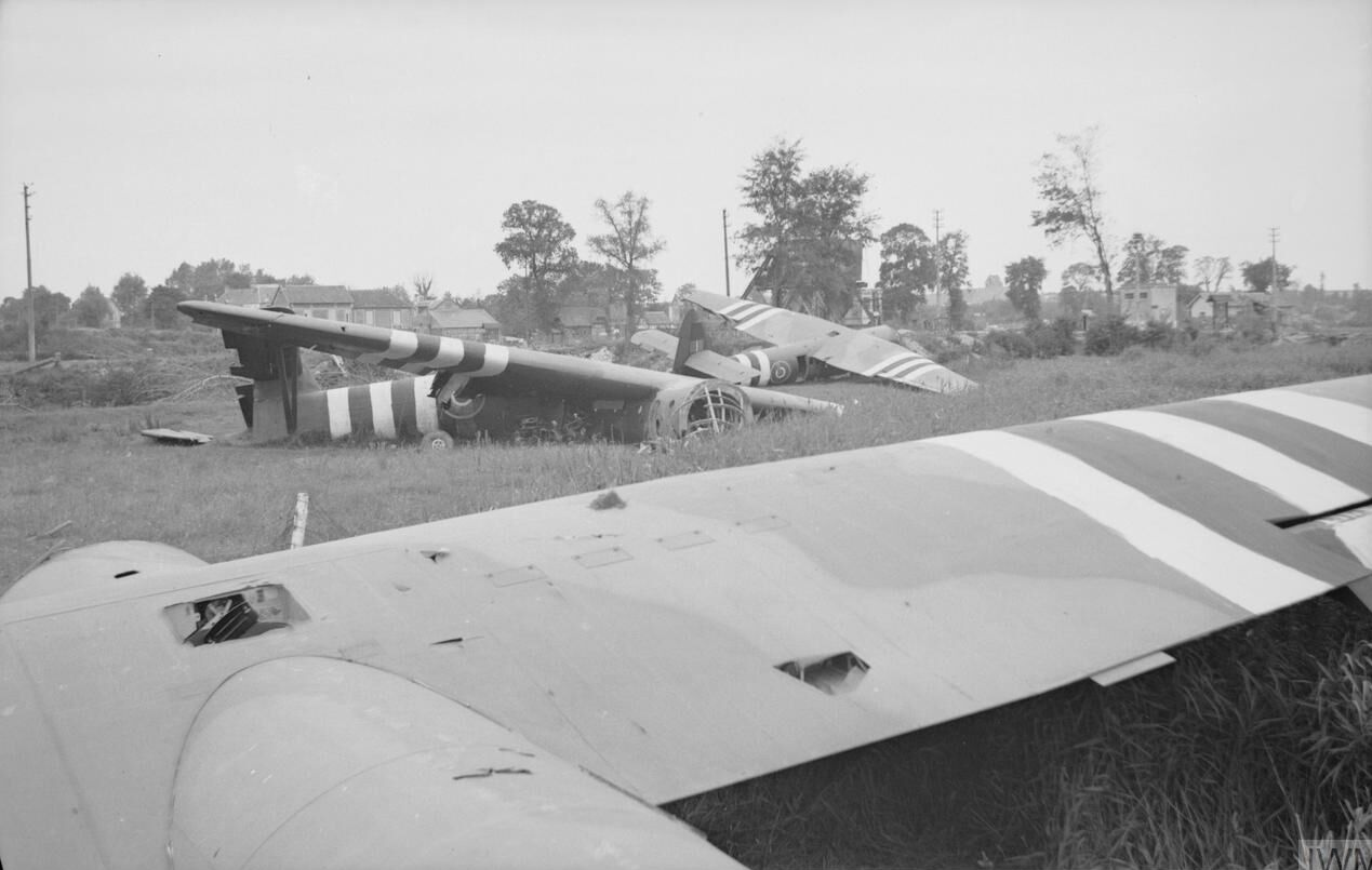 Three of the Horsa gliders that brought the 'coup de main' force in on the night of D-Day to capture the bridge over the Caen Canal at Benouville, France, which subsequently became known as 'Pegasus Bridge'.